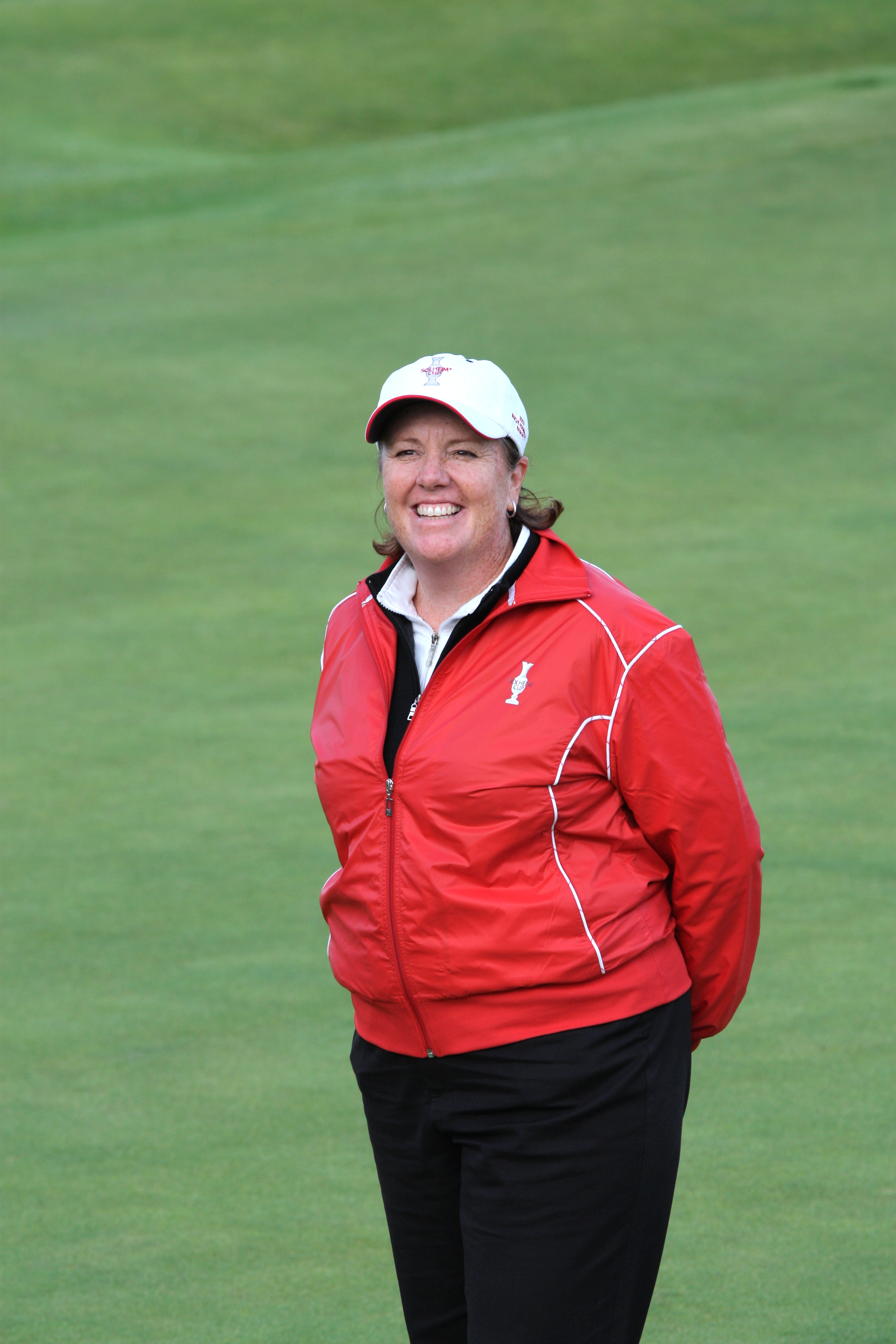 LYTHAM ST ANNES, UNITED KINGDOM - AUGUST 02: Meg Mallon of USA, assistant captain of the USA Solheim Cup Team, posing for a photograph after announcement of Solheim Cup teams, which followed final round of the 2009 Ricoh Women's British Open held at Royal Lytham & St Annes on August 2, 2009 in Lytham St Annes, England. (Photo by Wojciech Migda)